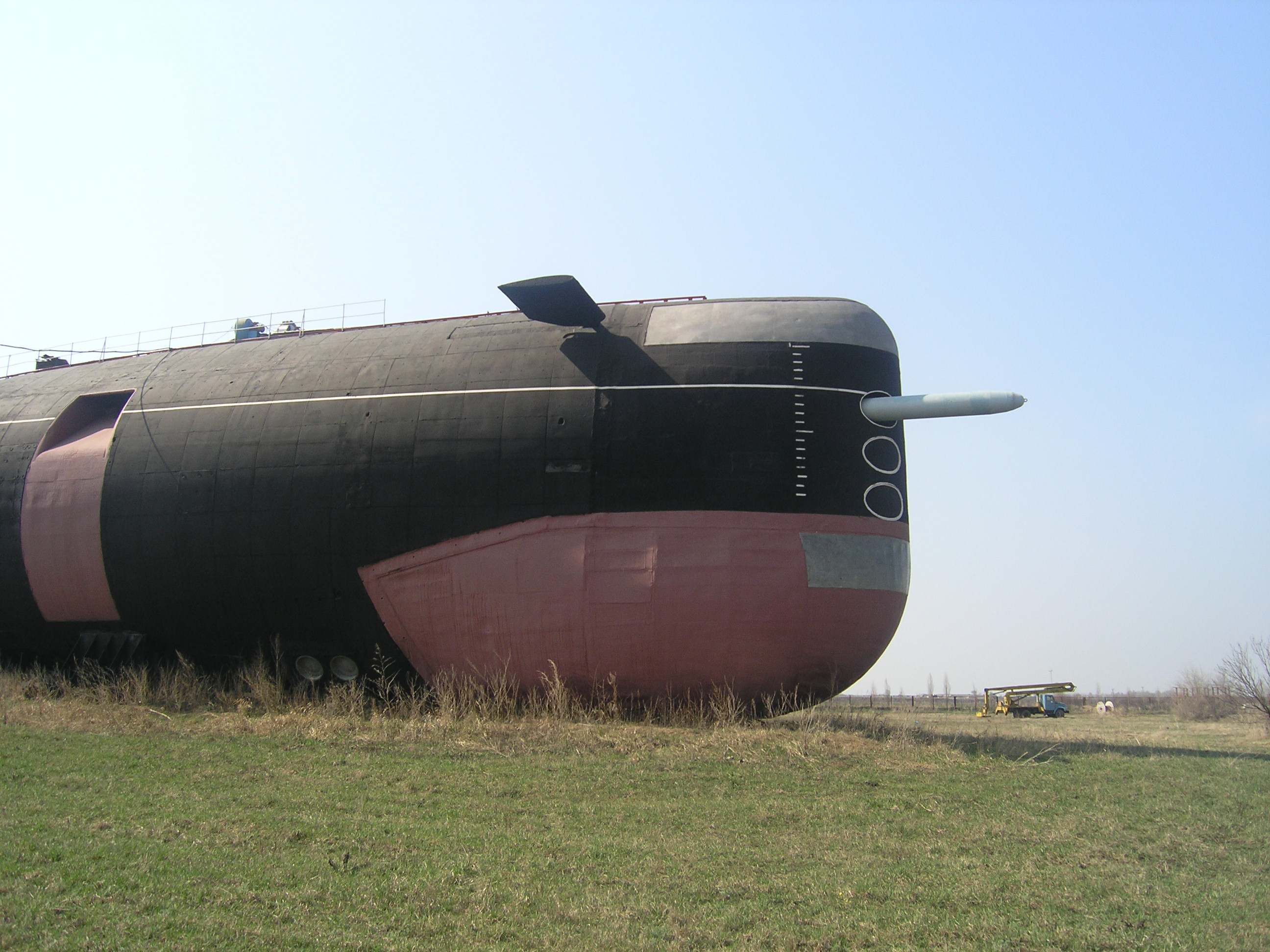 B-307, soviet submarine, Togliatti